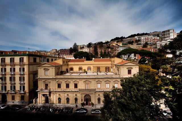 yhr2iu 238urh82 yuy732hr82r8